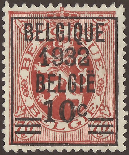 Stamp of the Kingdom of Belgien; 1932; definitive stamp of the issue "Heraldic Lion" from 1929 with overprint as pre-cancellation; mint stamp Stamp: Michel: No. 323 (= No. K10 ("two-stamps-tête-bêche") from 1929 with overprint); Yvert et Tellier: No. 334 (= No. 287a from 1929 with overprint); AFA: No. 330 (= No. TB264 from 1929 with overprint) Color: brown red to red brown with black overprint Watermark: none Nominal value: 10 C (Centimes) on 70 C (Centimes) Postage validity: from 1 January 1932 until 30 June 1938 date QS:P,+1932-00-00T00:00:00Z/8,P580,+1932-01-01T00:00:00Z/11,P582,+1938-06-30T00:00:00Z/11 Stamp picture size (printed area without overprint): 17.0 x 22.0 mm (The black overprint is a pre-devaluation at once.)